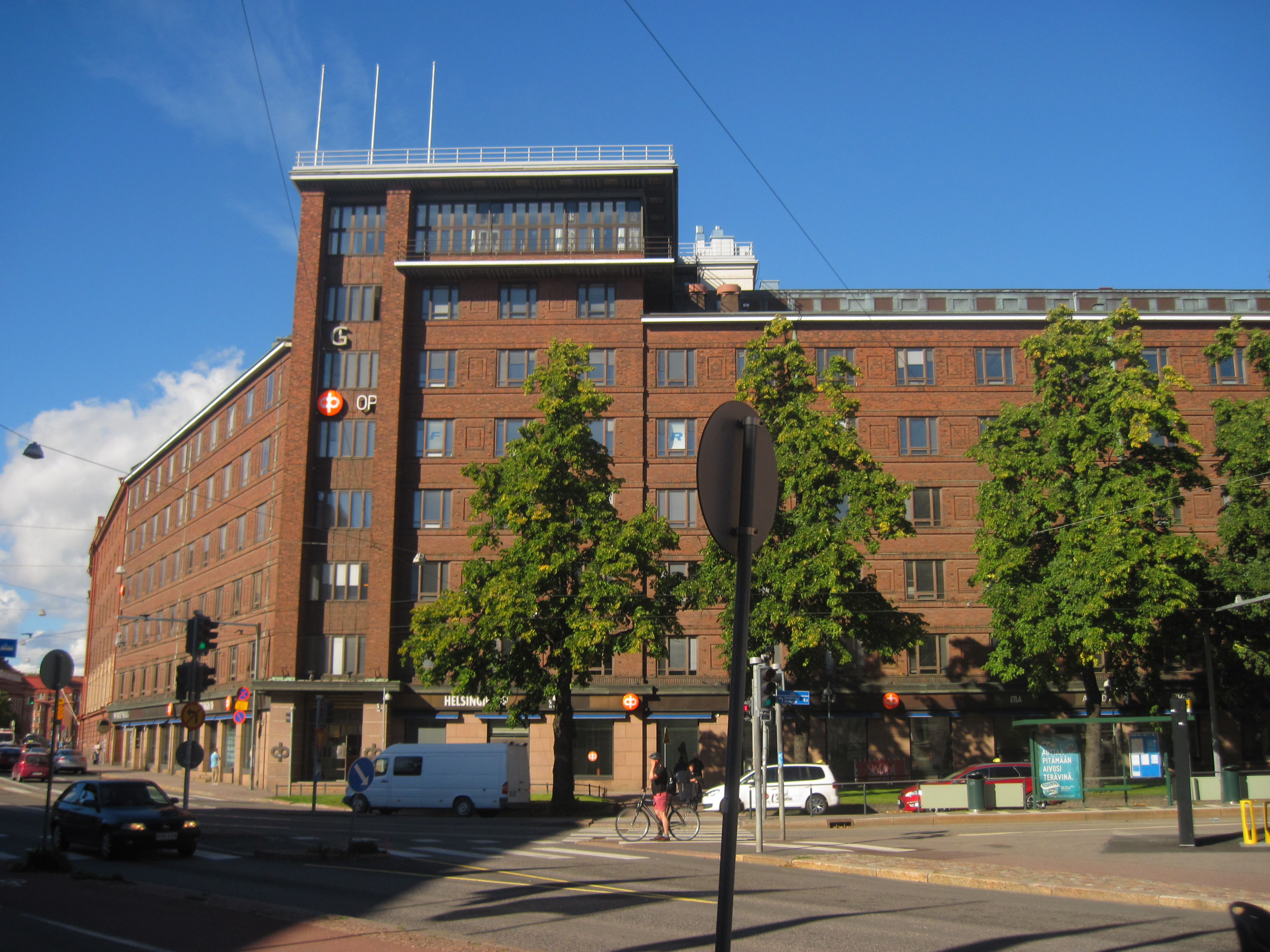 Former main office of OKO Bank, Arkadiankatu 23, Helsinki